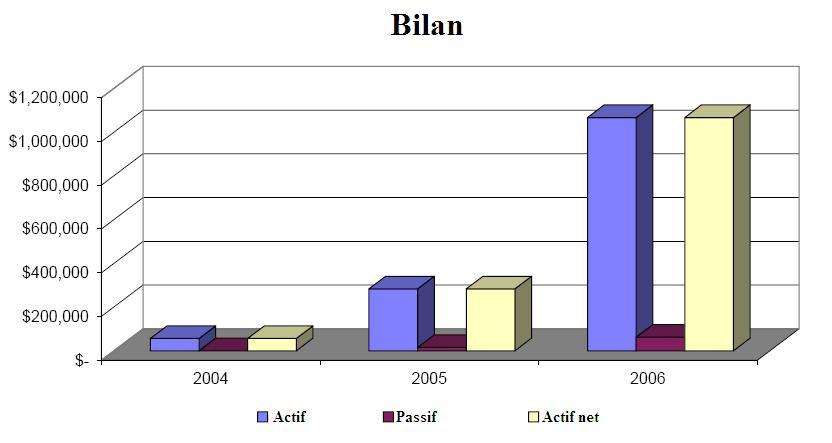 Graphique du bilan de la Wikimedia Foundation / Graph of the Statement Financial Position of WMF